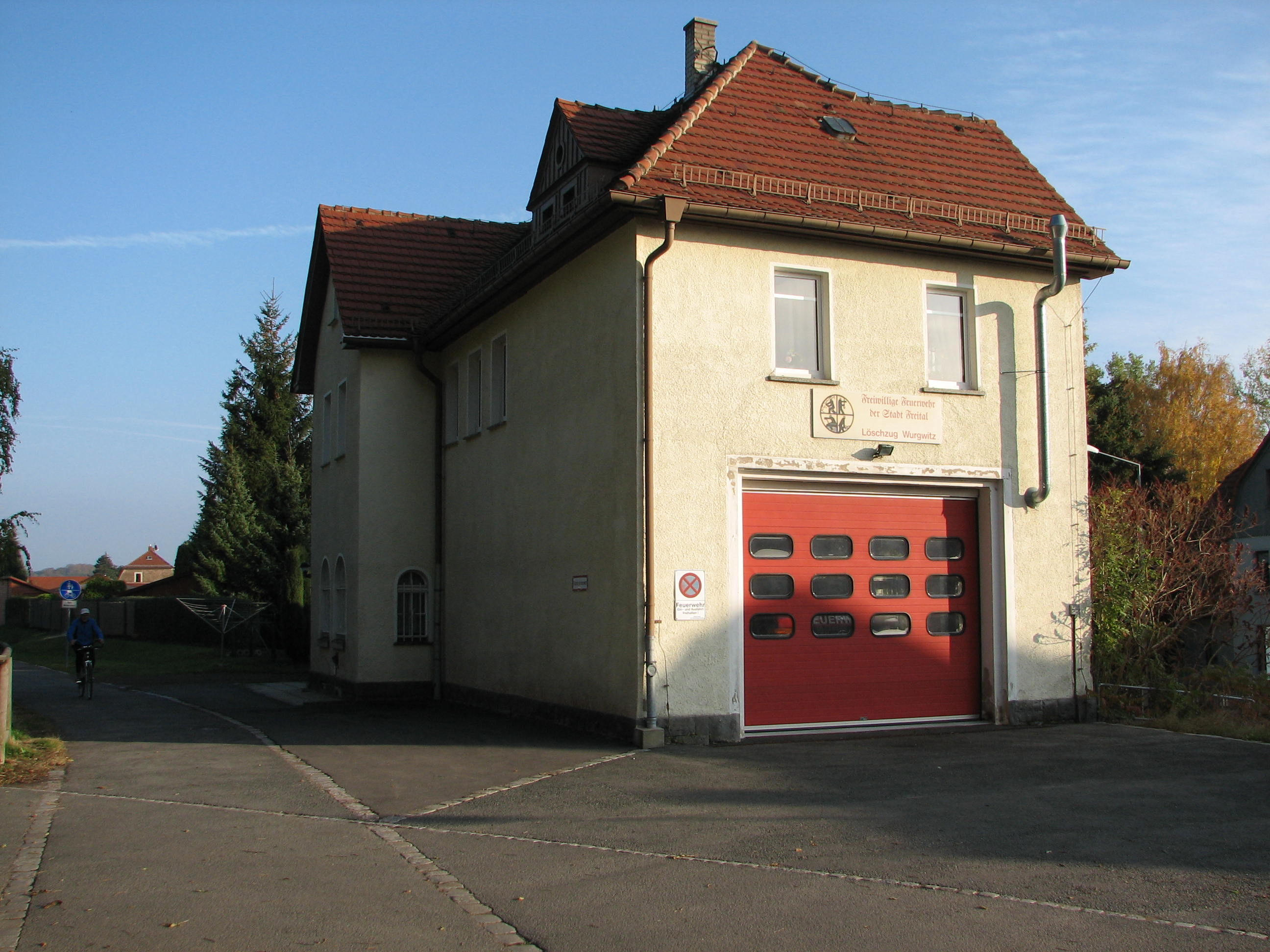 Picture of the old station of Wurgwitz, district of Freital, now fire brigade